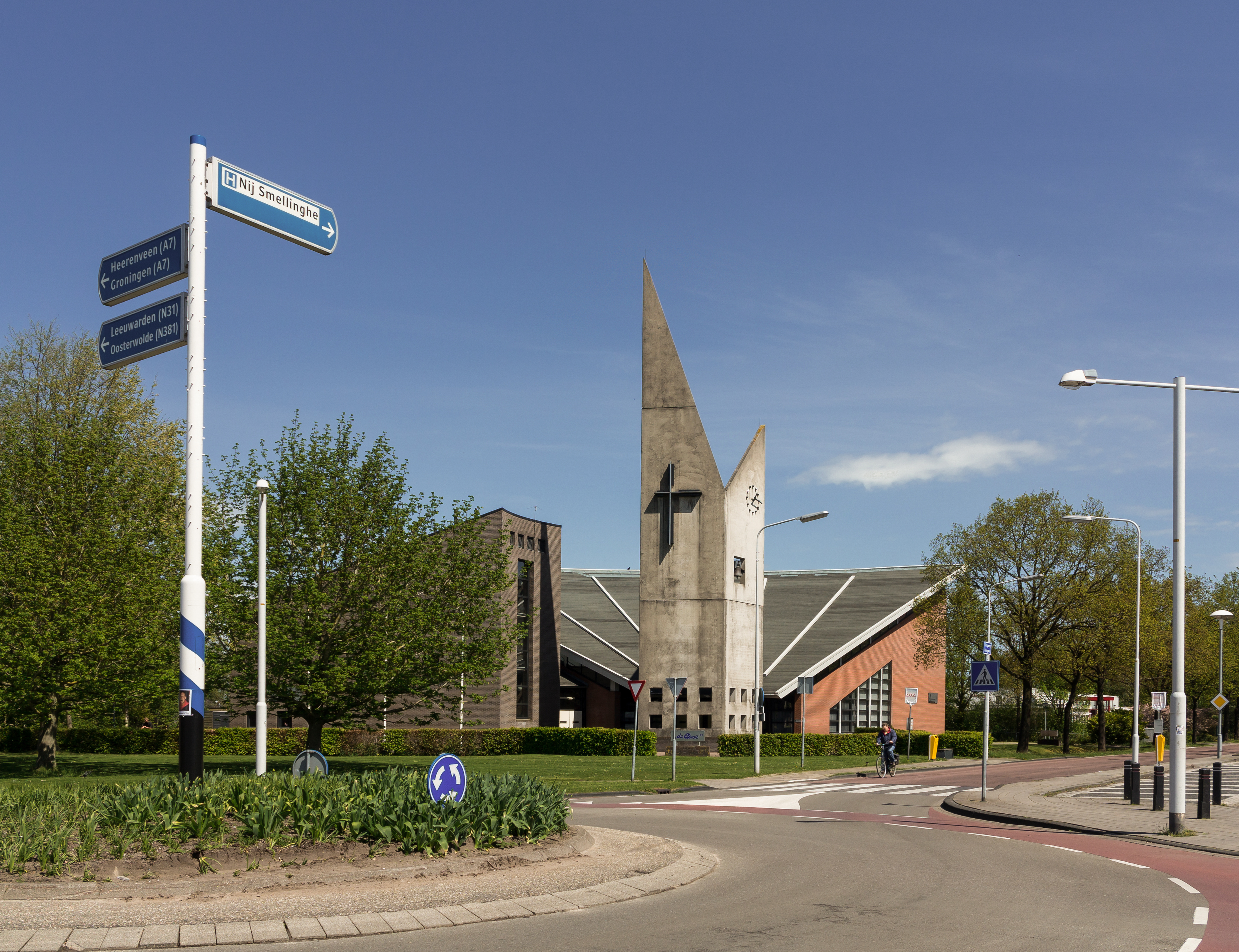 Drachten Noordoost, church: de Oase